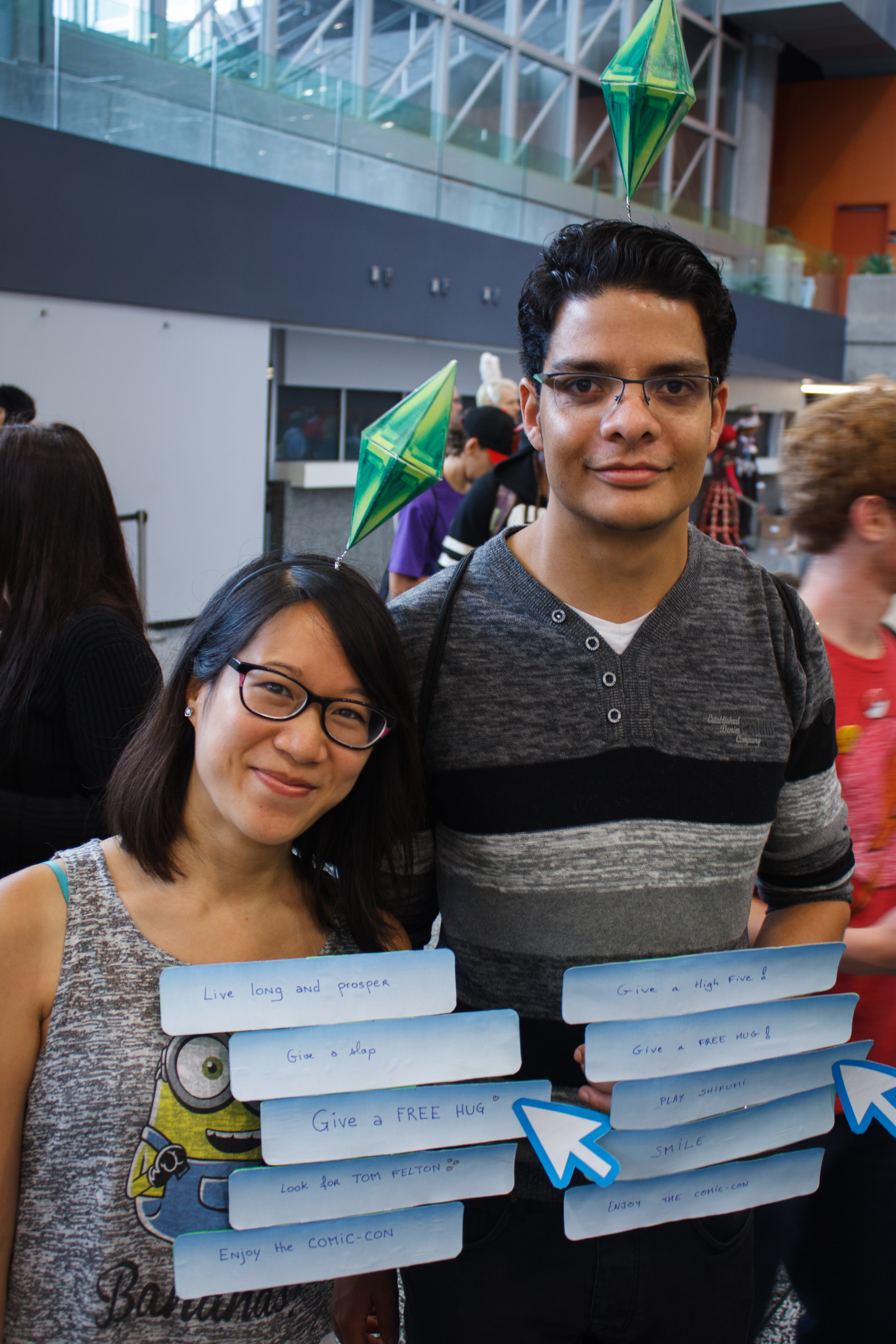 Cosplay of The Sims on Sunday, day three, of the Montreal Comiccon 2016.